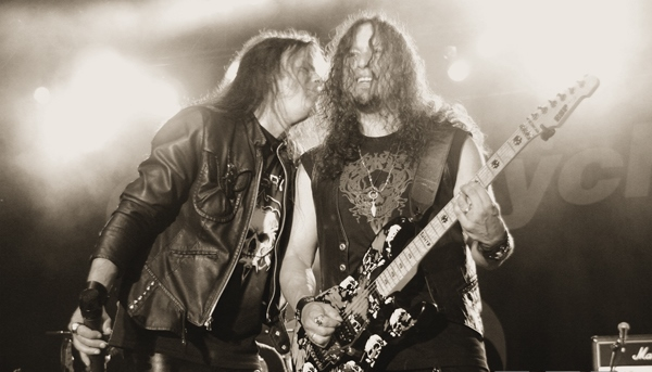 Todd La Torre & Michael Wilton at the Halfway Jam in Royalton, MN July 2012. Photo by Michael B. Lindgren